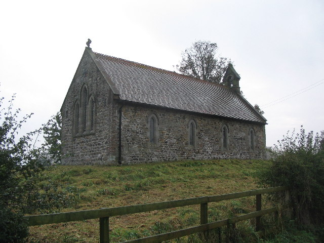 St Edmund's chapel, Fraisthorpe, East Riding of Yorkshire, England, seen from the northeast.